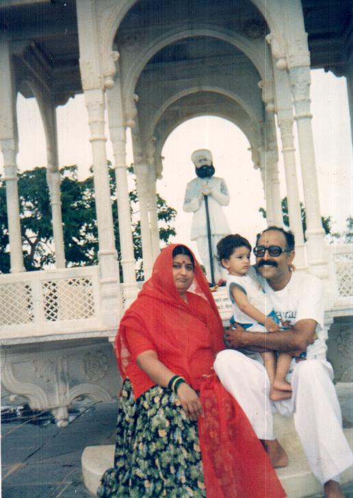 Late Kr. Harish Chandra Singh Karjali, the great-grand nephew of Bavji, with his wife Krn. Pramila Kumari and their daughter’s son Shivam Singh Dugari at the Chatur Sadhana Sthal, Nauwa (1991)